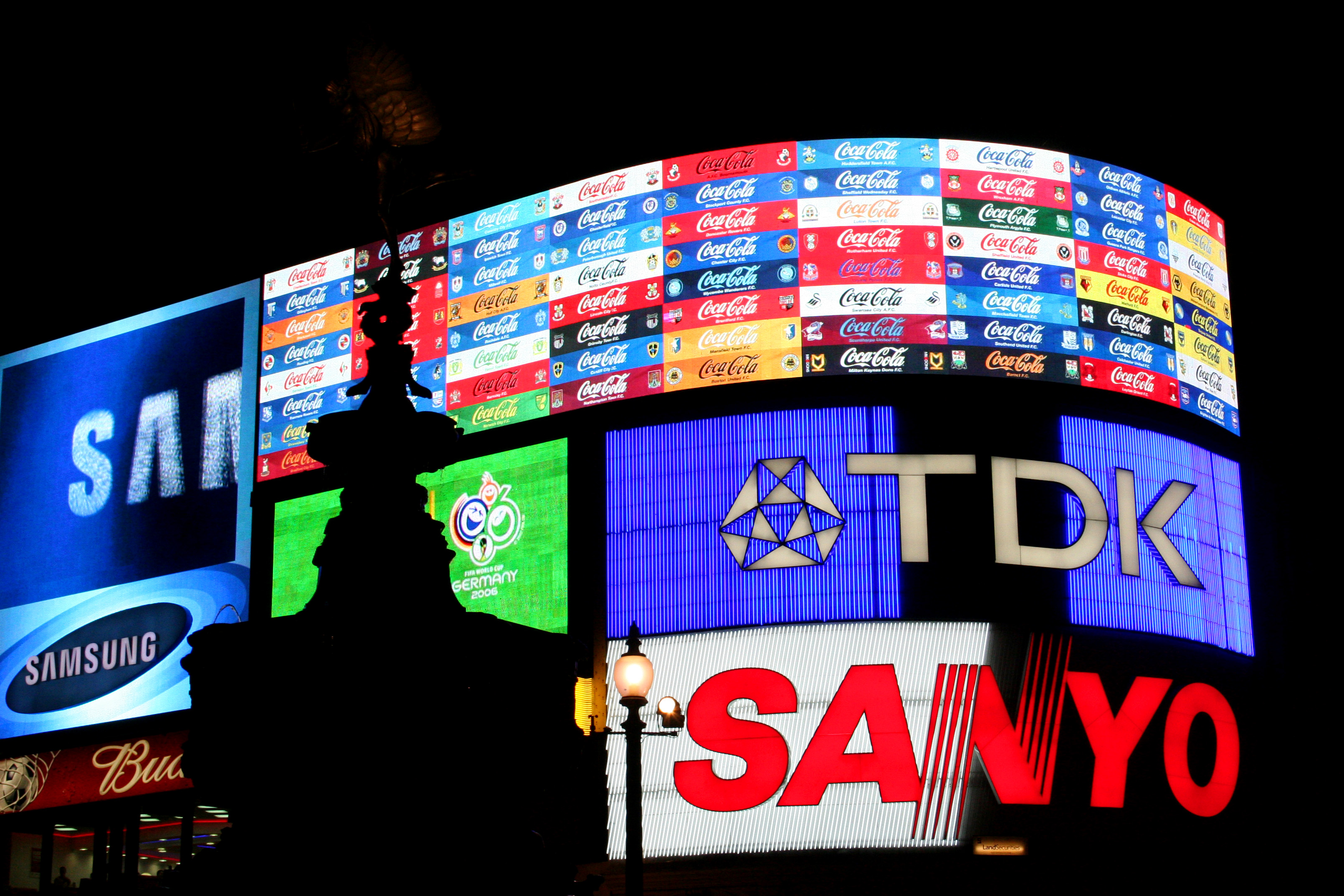 London, Picadilly Circus by night, 2006